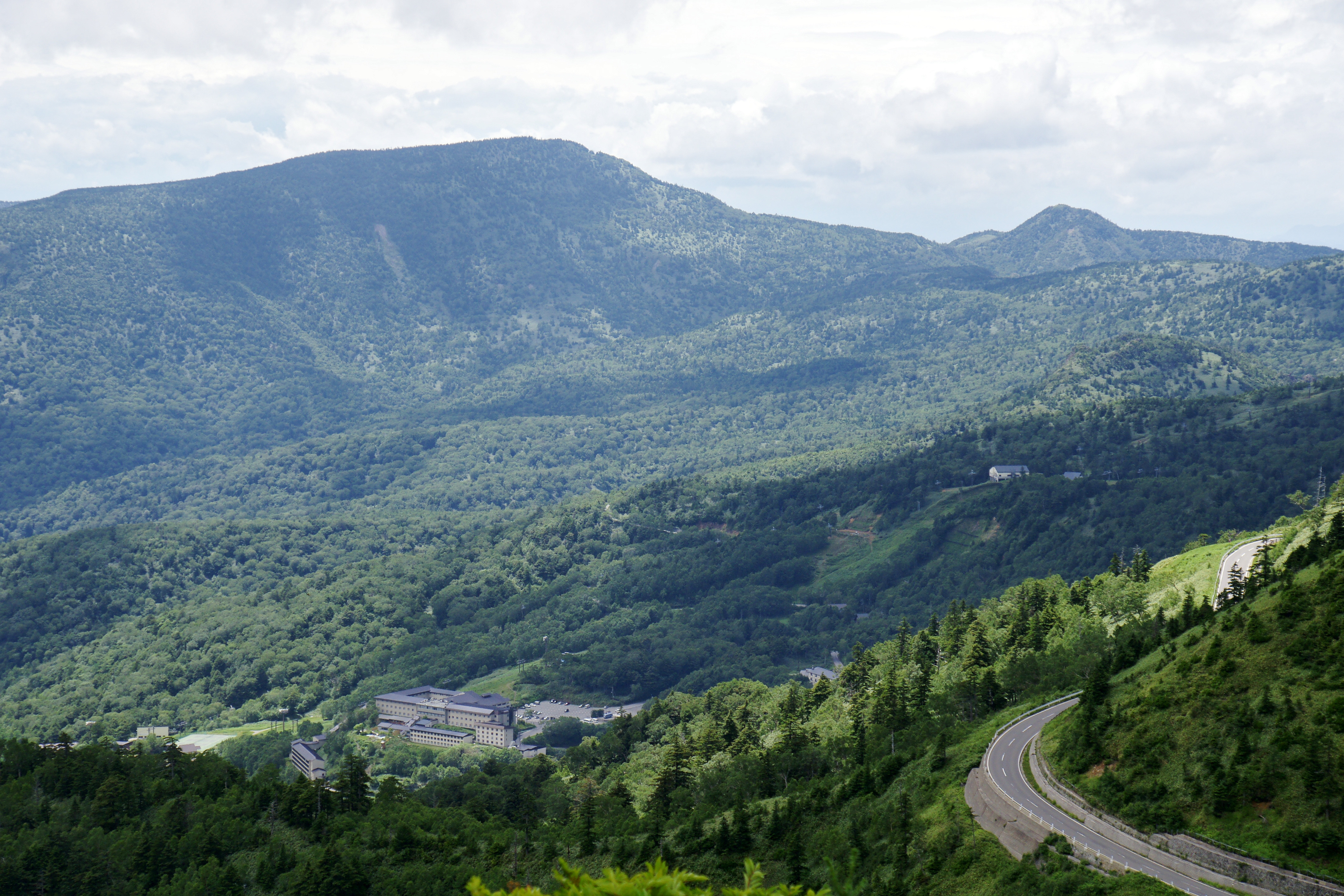 Mount Manza and Manza Onsen in Tsumagoi, Gunma prefecture, Japan.